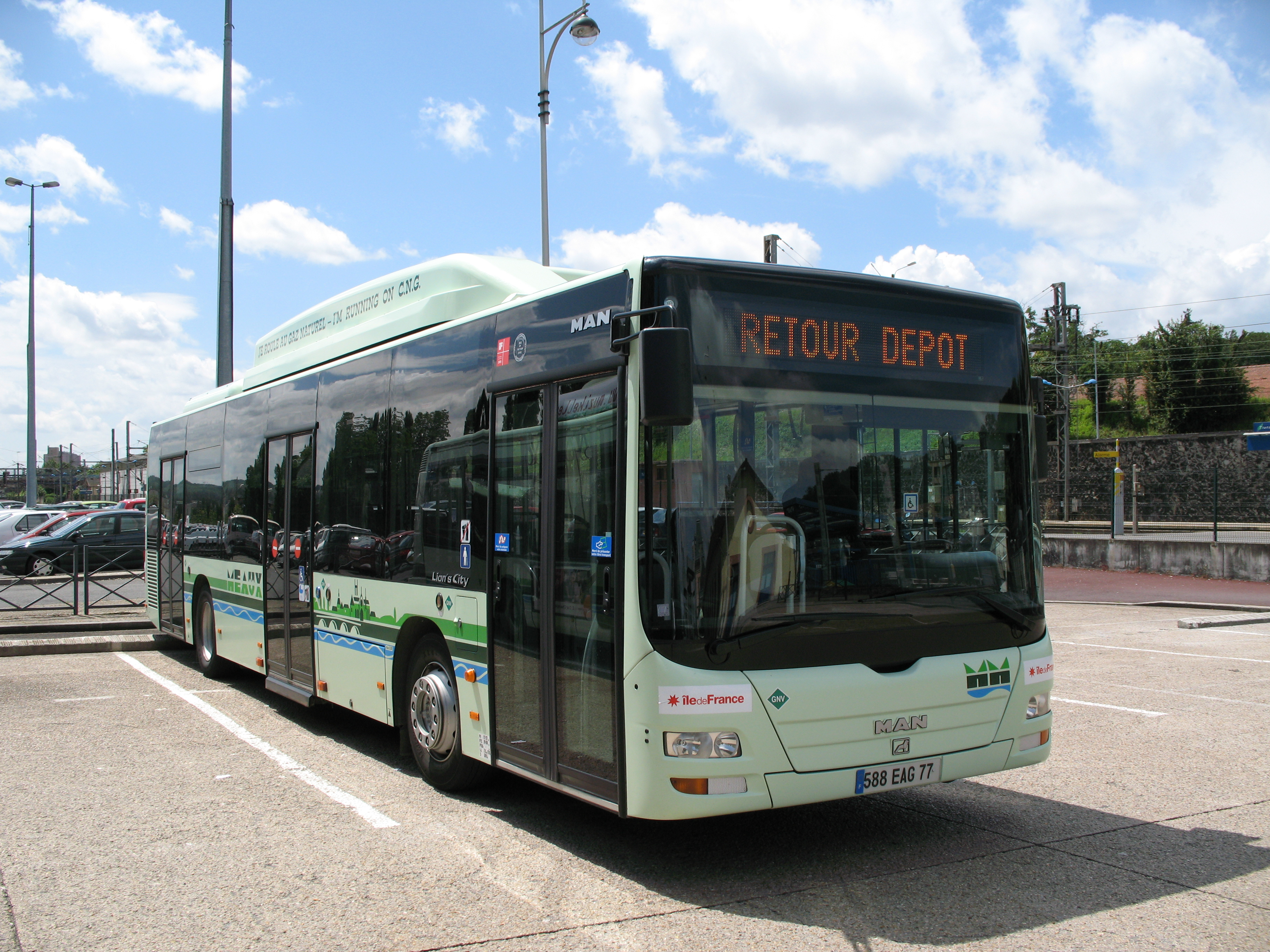 Bus MAN Lion's City on the network Marne et Morin at Meaux train station.